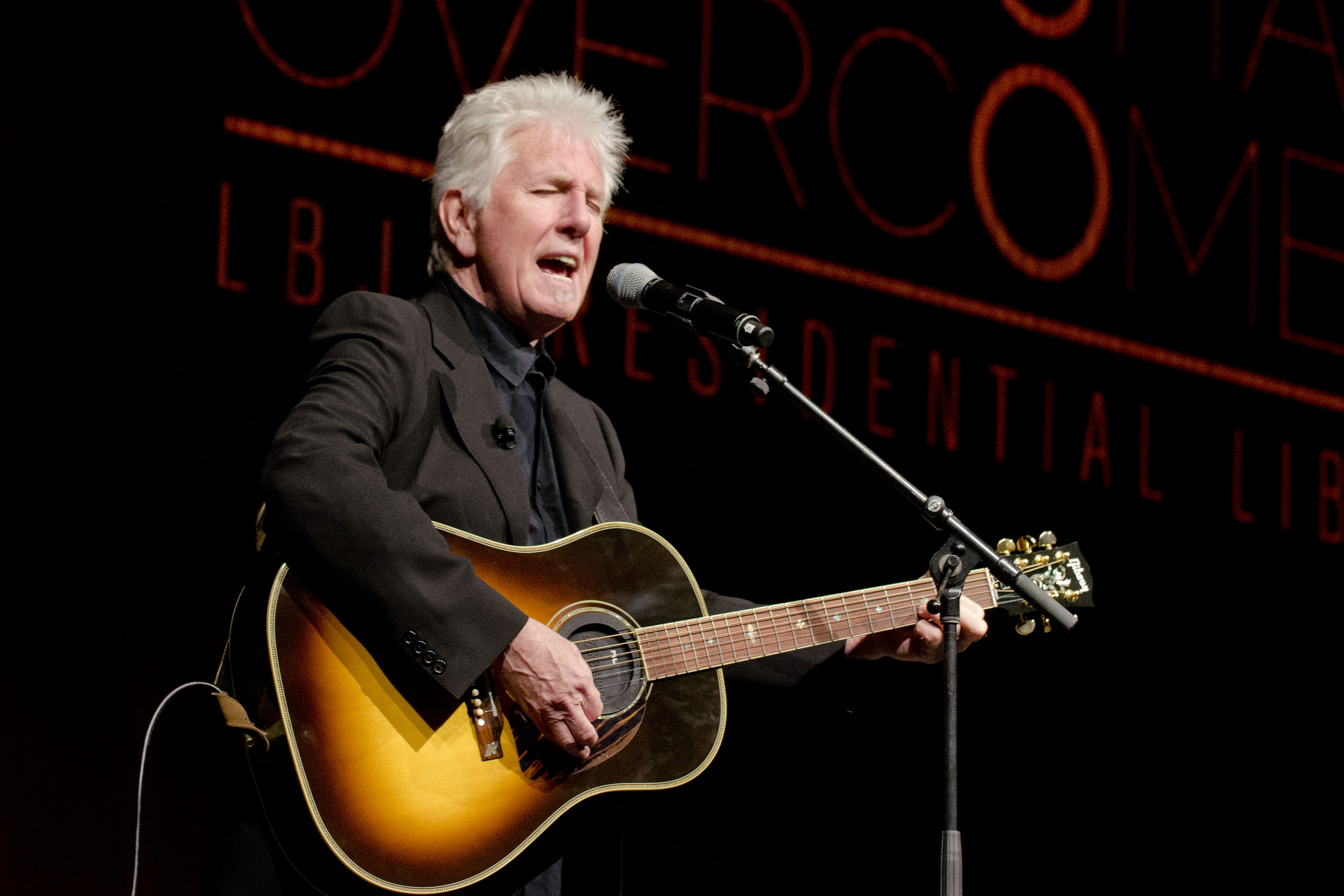 Graham Nash performing at the Civil Rights Summit at the LBJ Library in April 2014